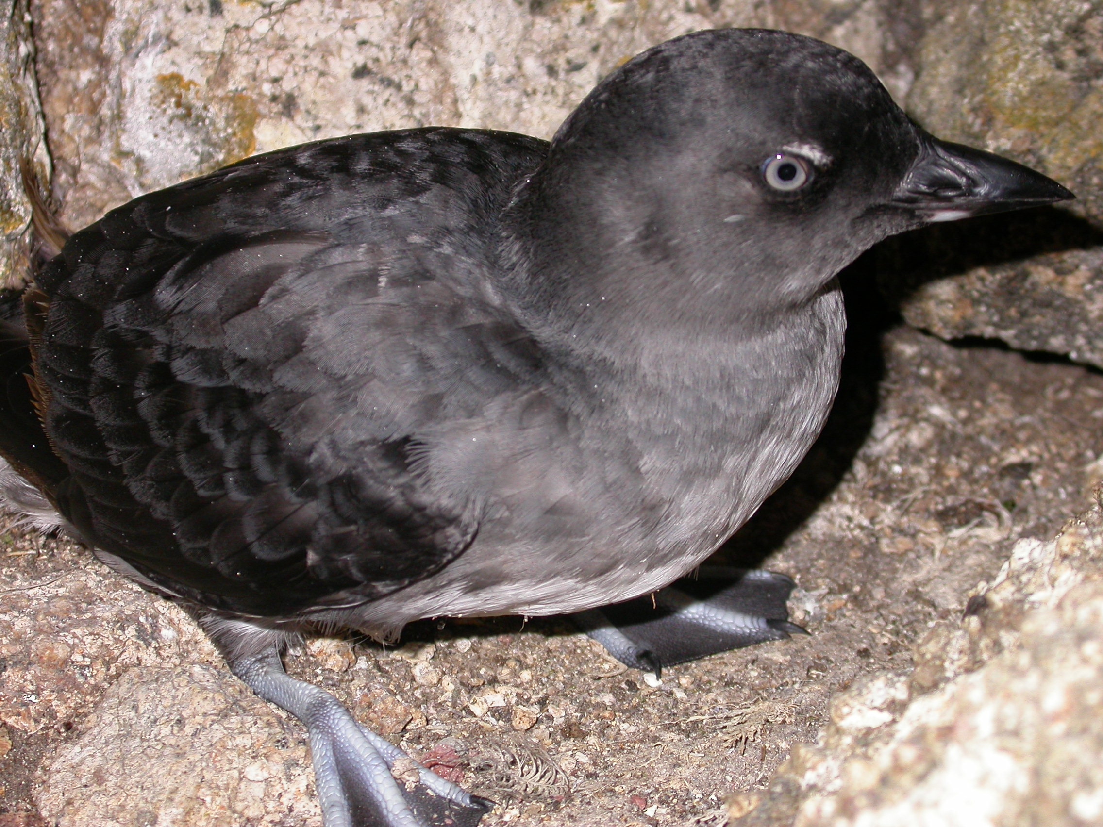 Cassin's auklet (Ptychoramphus aleuticus) at night. Photo taken in 2003 on Farallon Islands.